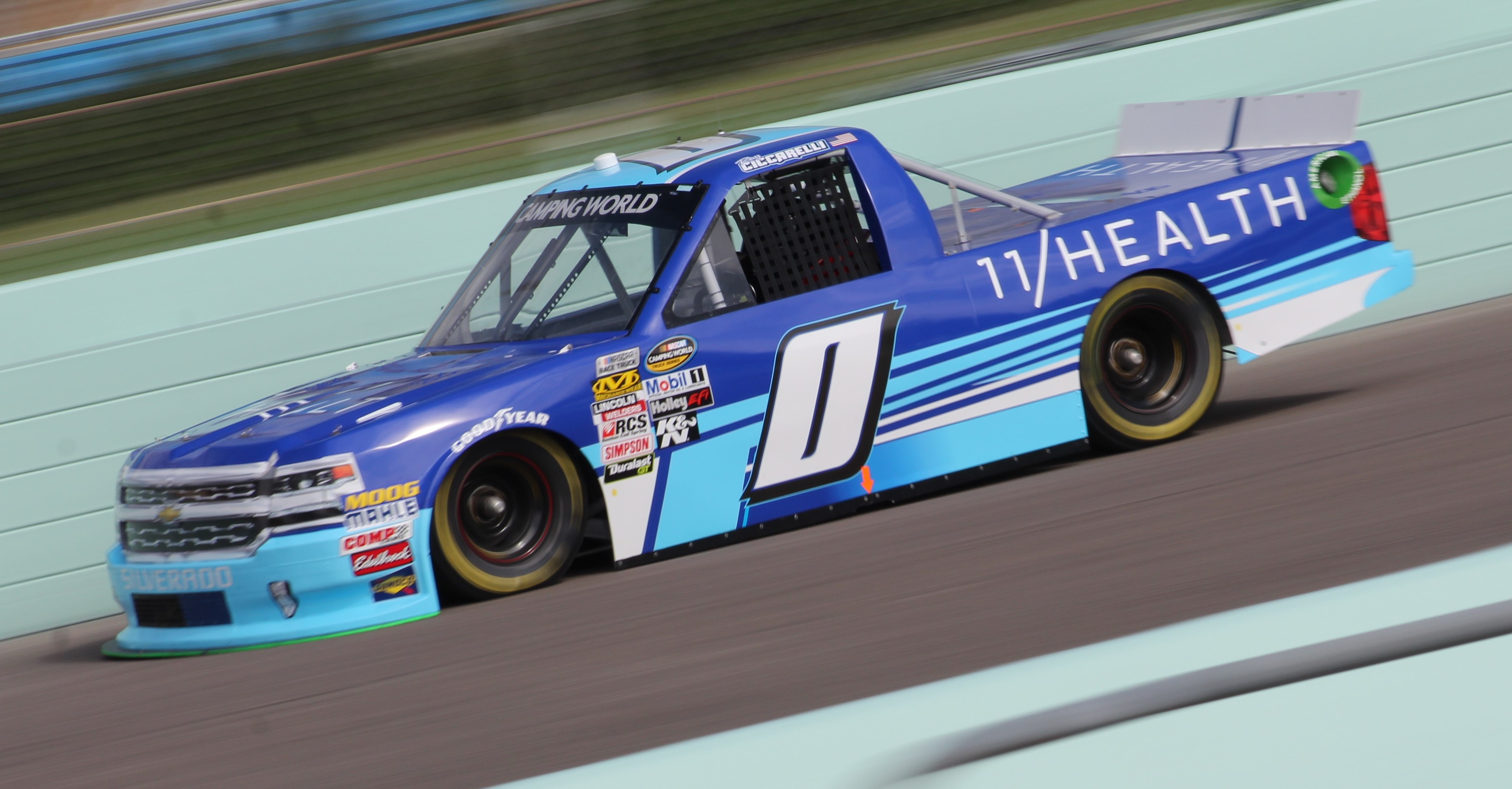 Ray Ciccarelli's No. 0 11/Health Chevrolet at Homestead–Miami Speedway in 2018